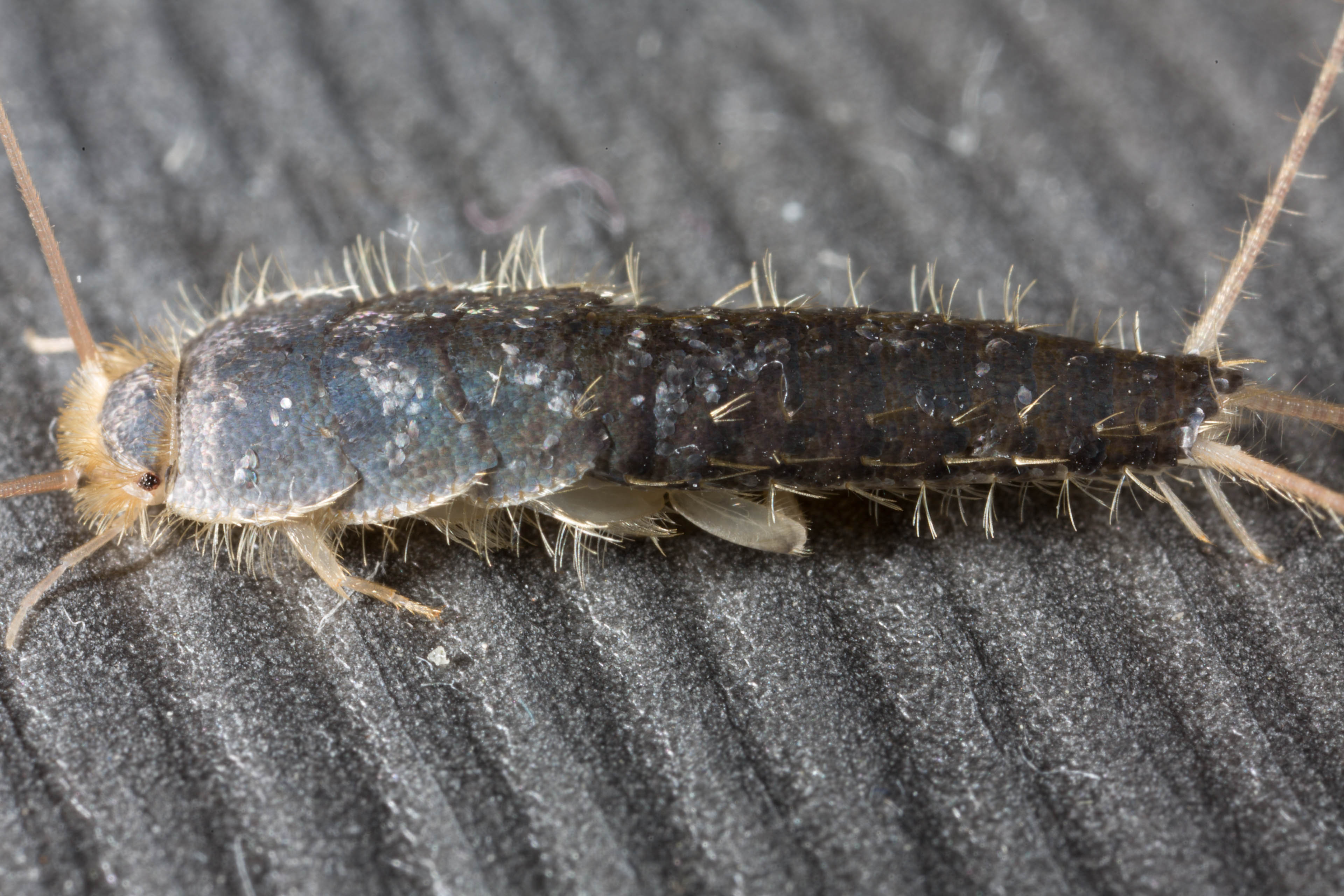 Ctenolepisma sp. with visable silver scales on its back; possibly C. longicaudata but impossible to say without location